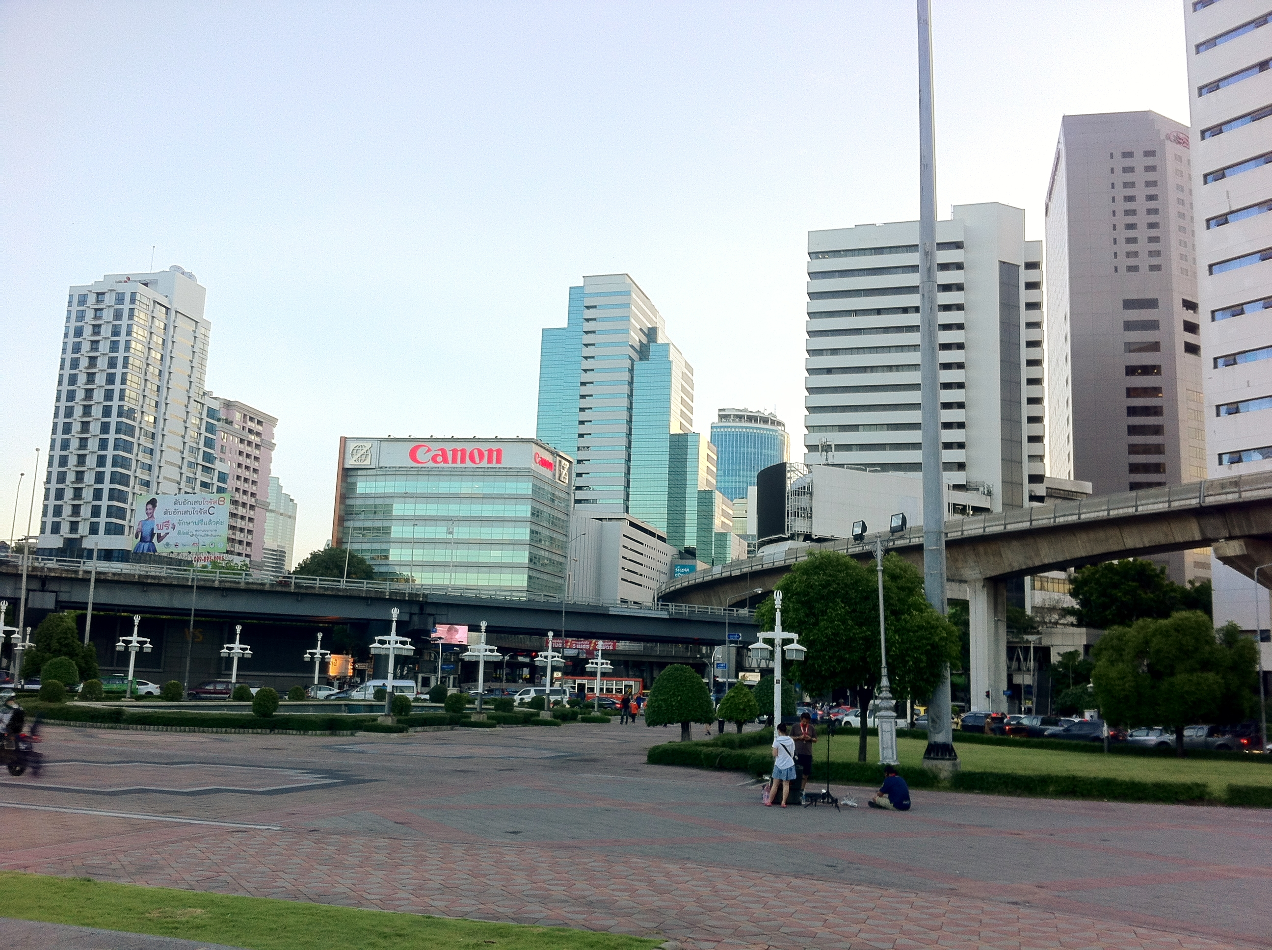 Sala Daeng Intersection